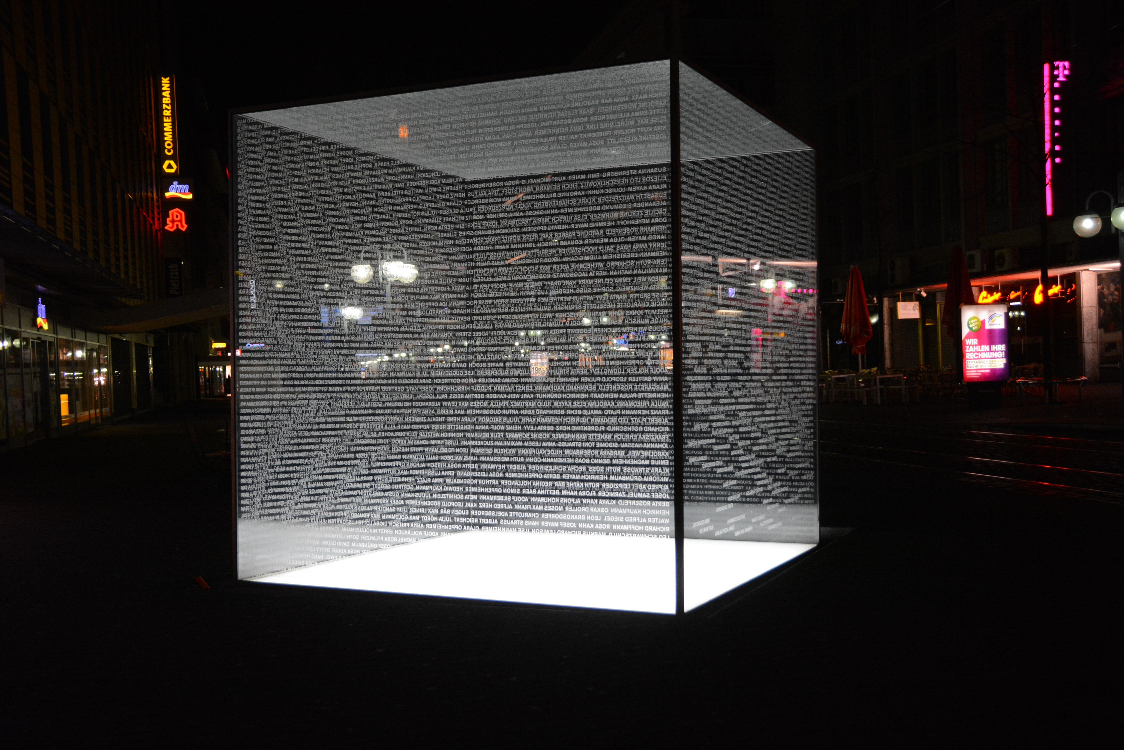 Class Cube (Holocaust memorial) in the city of Mannheim, Germany, at night